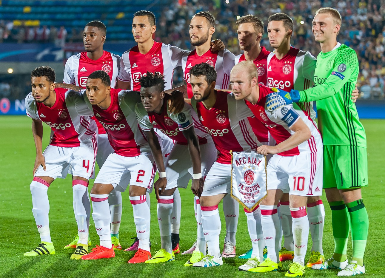 Ajax Amsterdam 2016